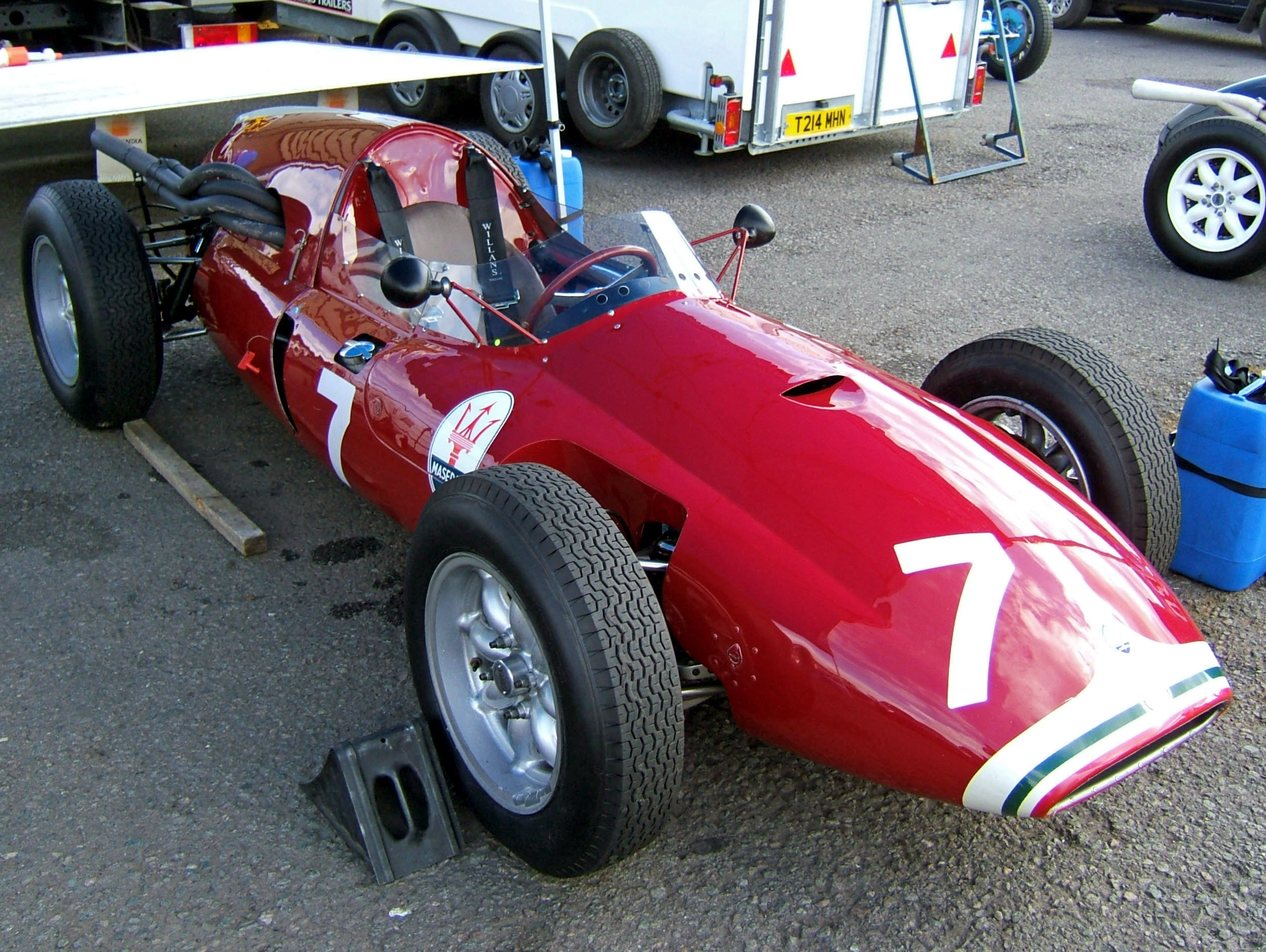 The distinctive, red-liveried, ex-Scuderia Centro Sud Cooper-Maserati T51, waiting in the paddock of the VSCC SeeRed race meeting, Donington Park, September 2007.